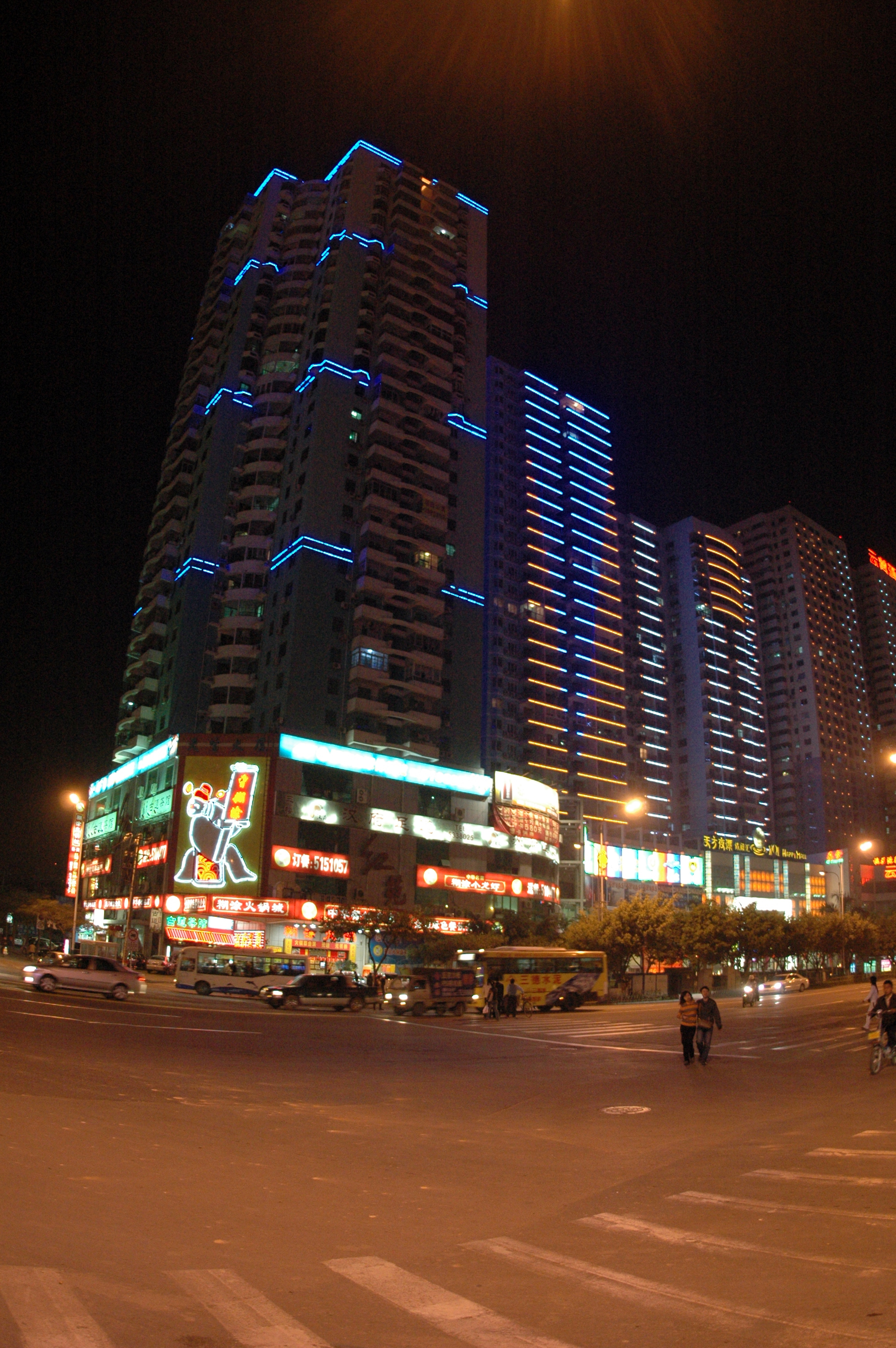 Xiamen China Winter 2007 by D Ramey Logan